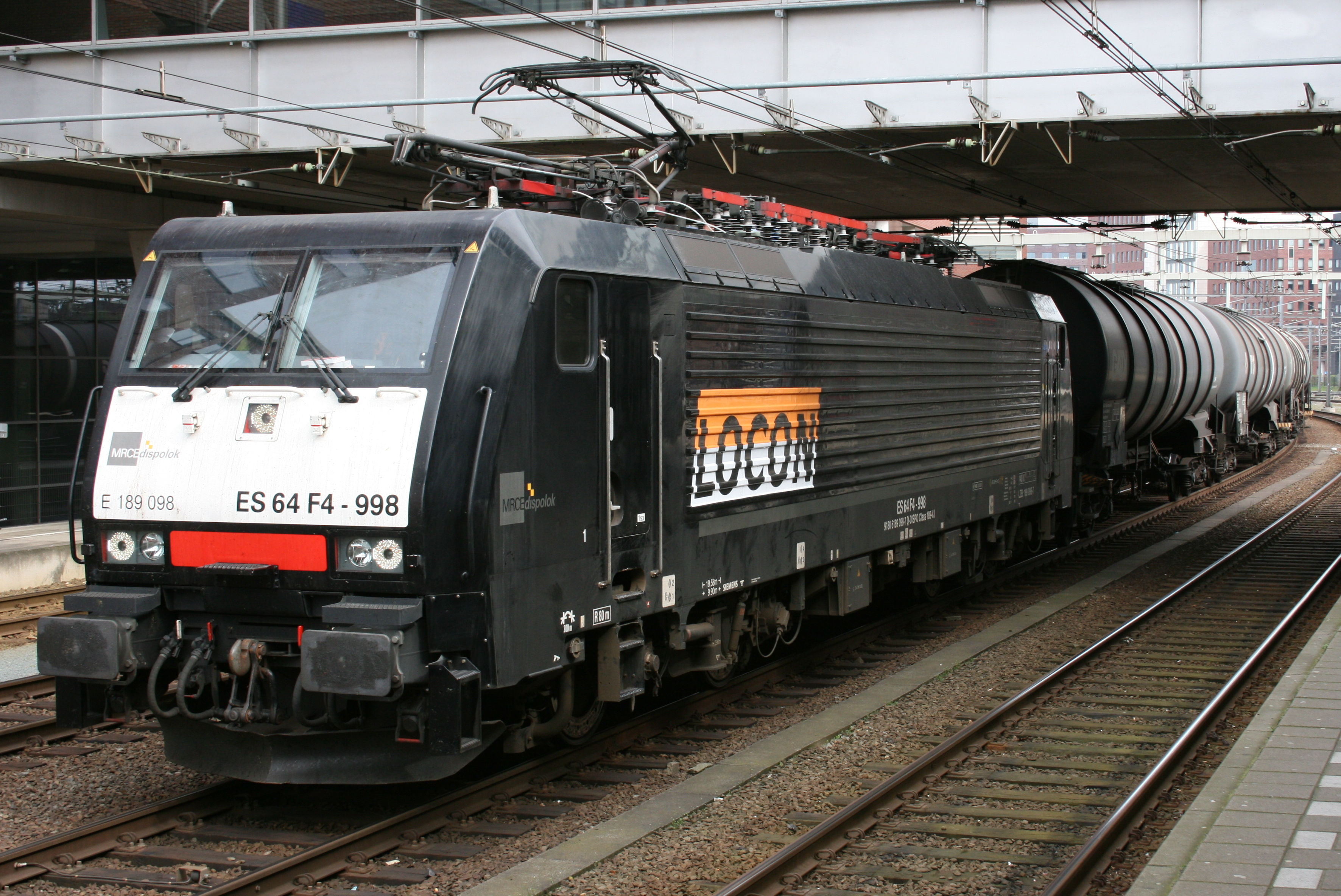 Locon 189 098 in Amersfoort